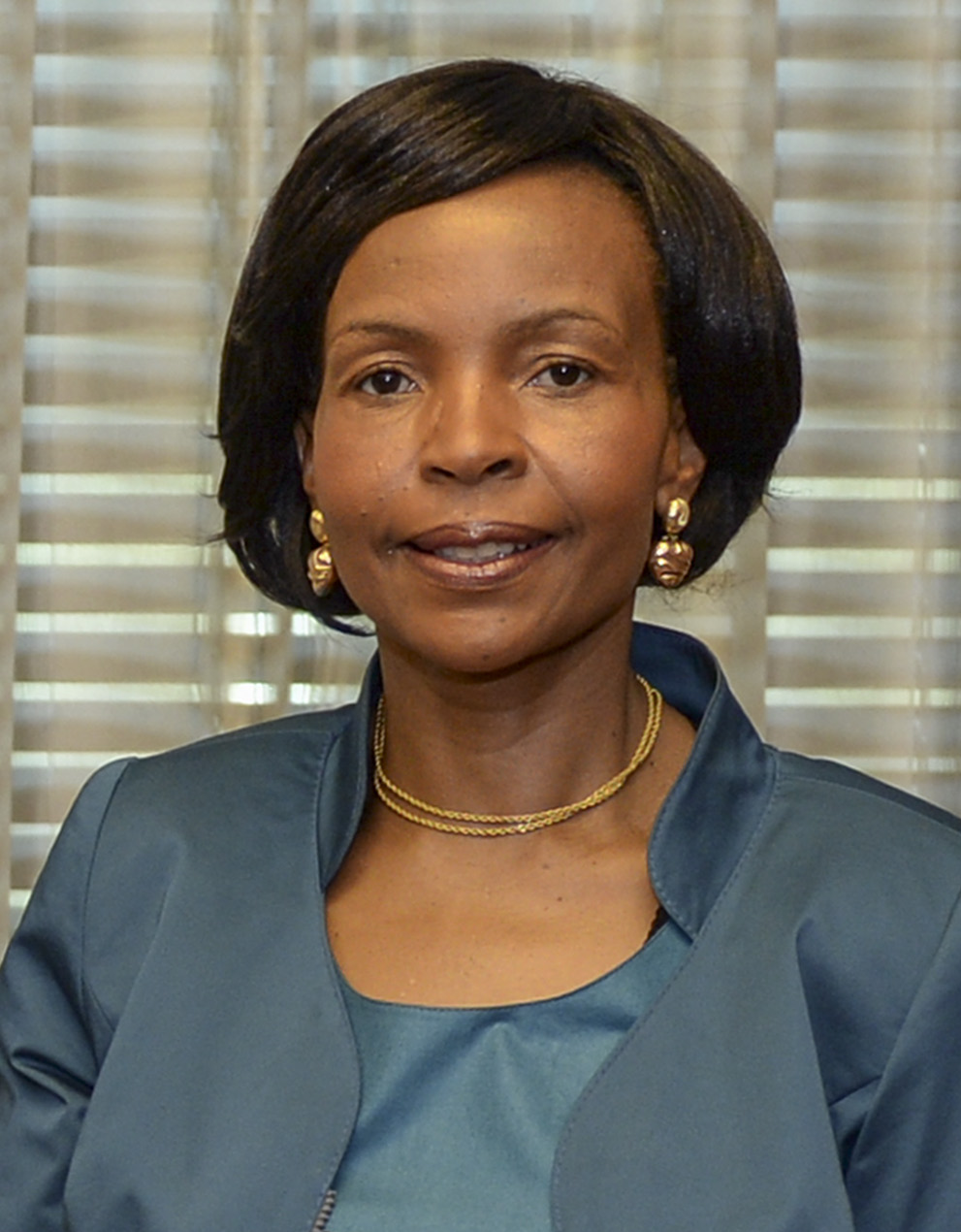 Australia’s Foreign Minister Julie Bishop meets with South Africa’s Minister of International Relations and Cooperation the Hon Maite Nkoana-Mashabane. 11 September 2014.